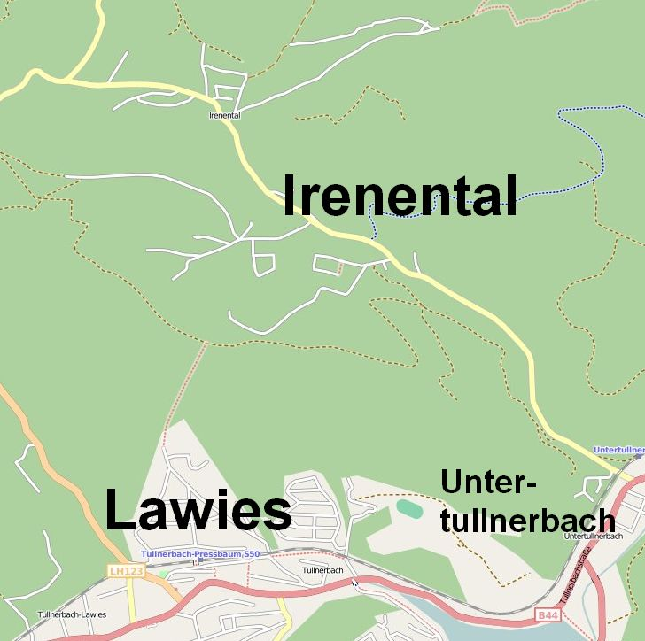 Districts of Tullnerbach